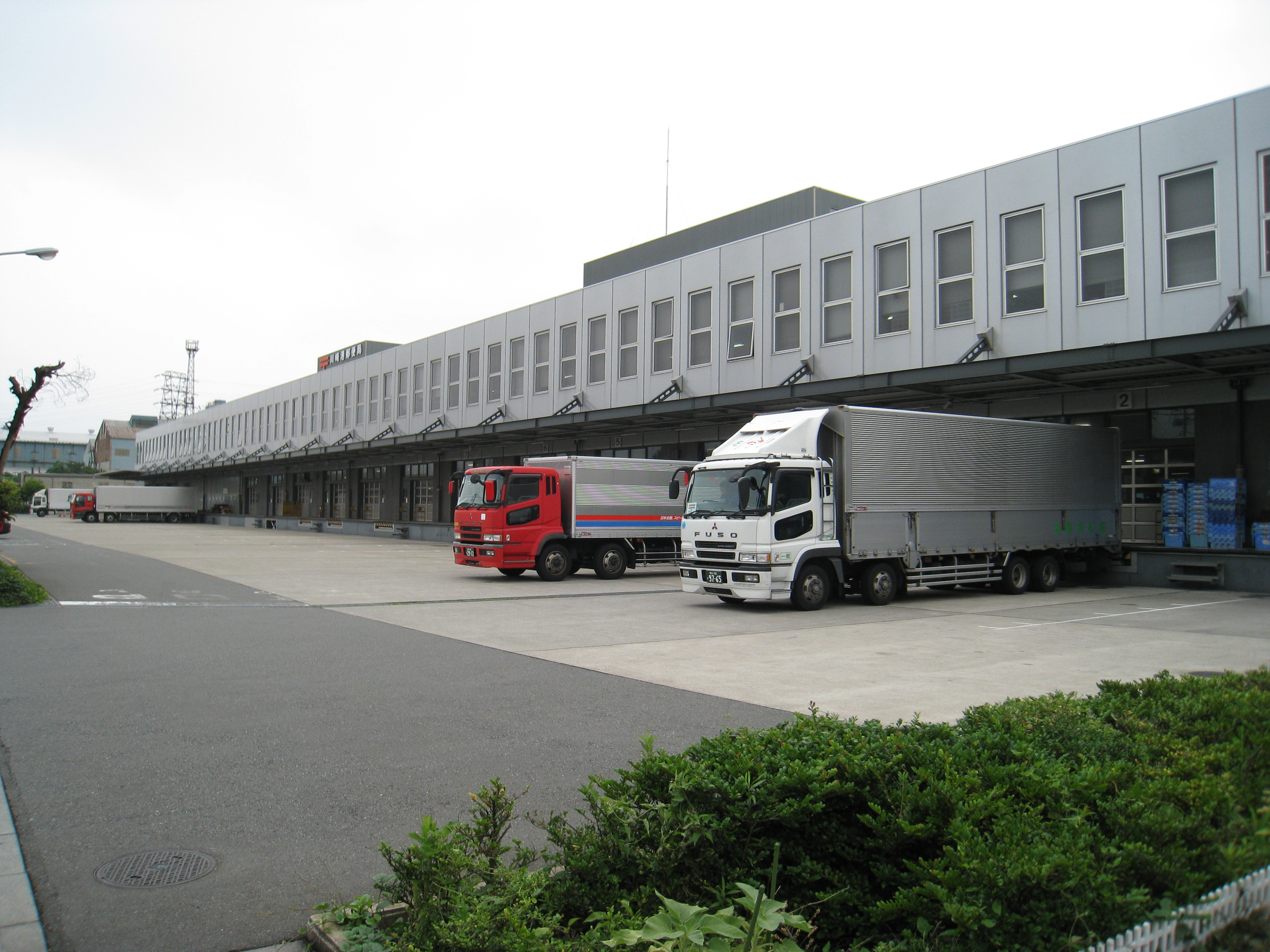 Kawasaki-minato postoffice. Kawasaki-city, Kanagawa-pref, Japan